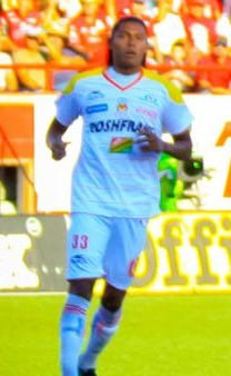 Morelia player Joel Huiqui